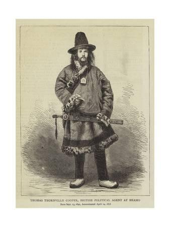 Portrait of Thomas Thornville Cooper (1839–1878), British traveller and political agent, published in The Graphic.